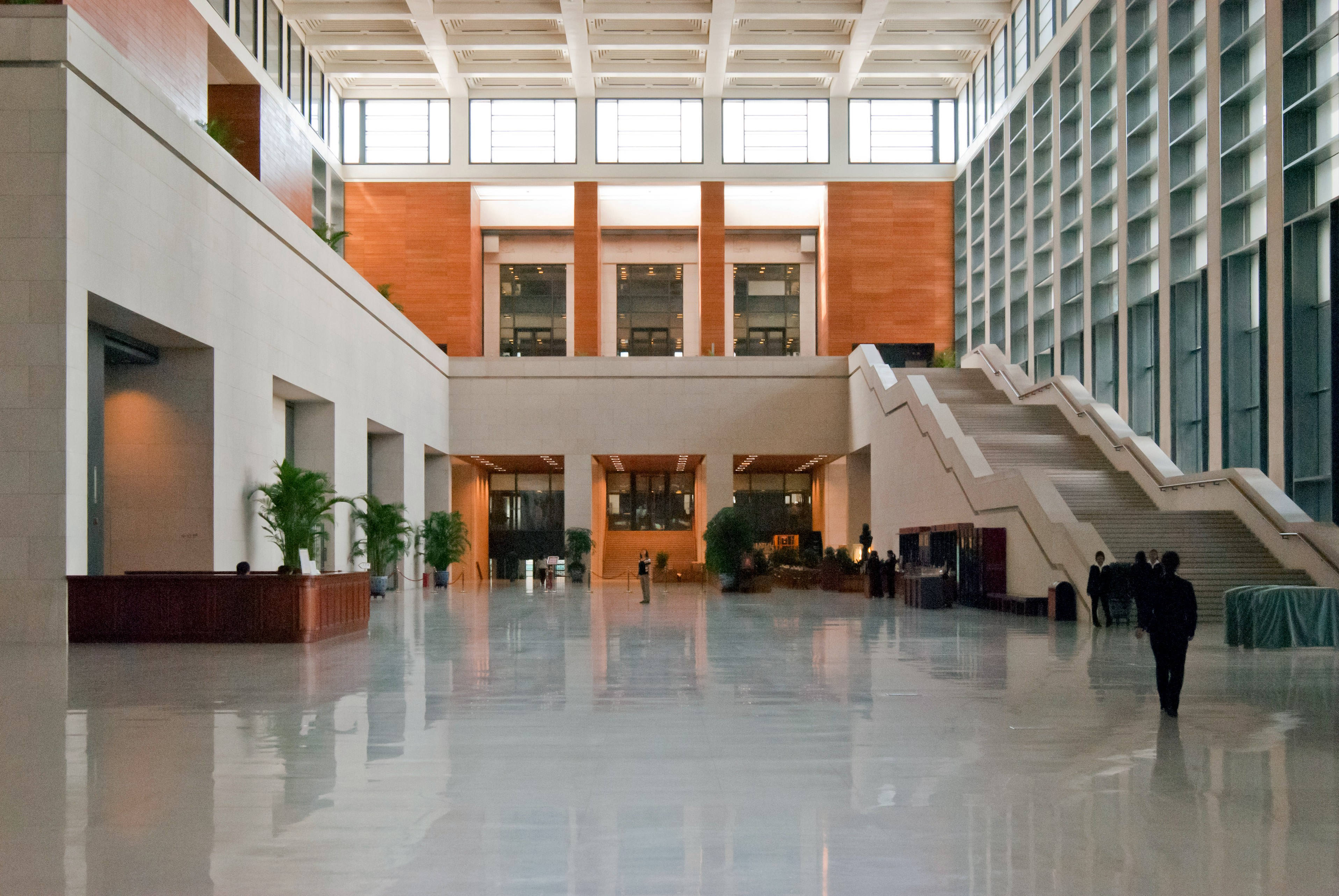 Main hall, view to south.